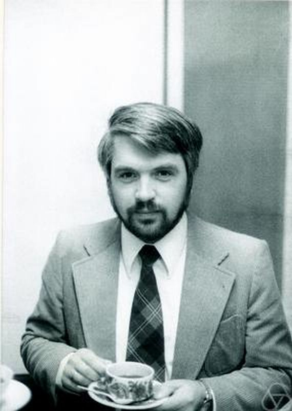 Helmut Bender, Erlangen 1974